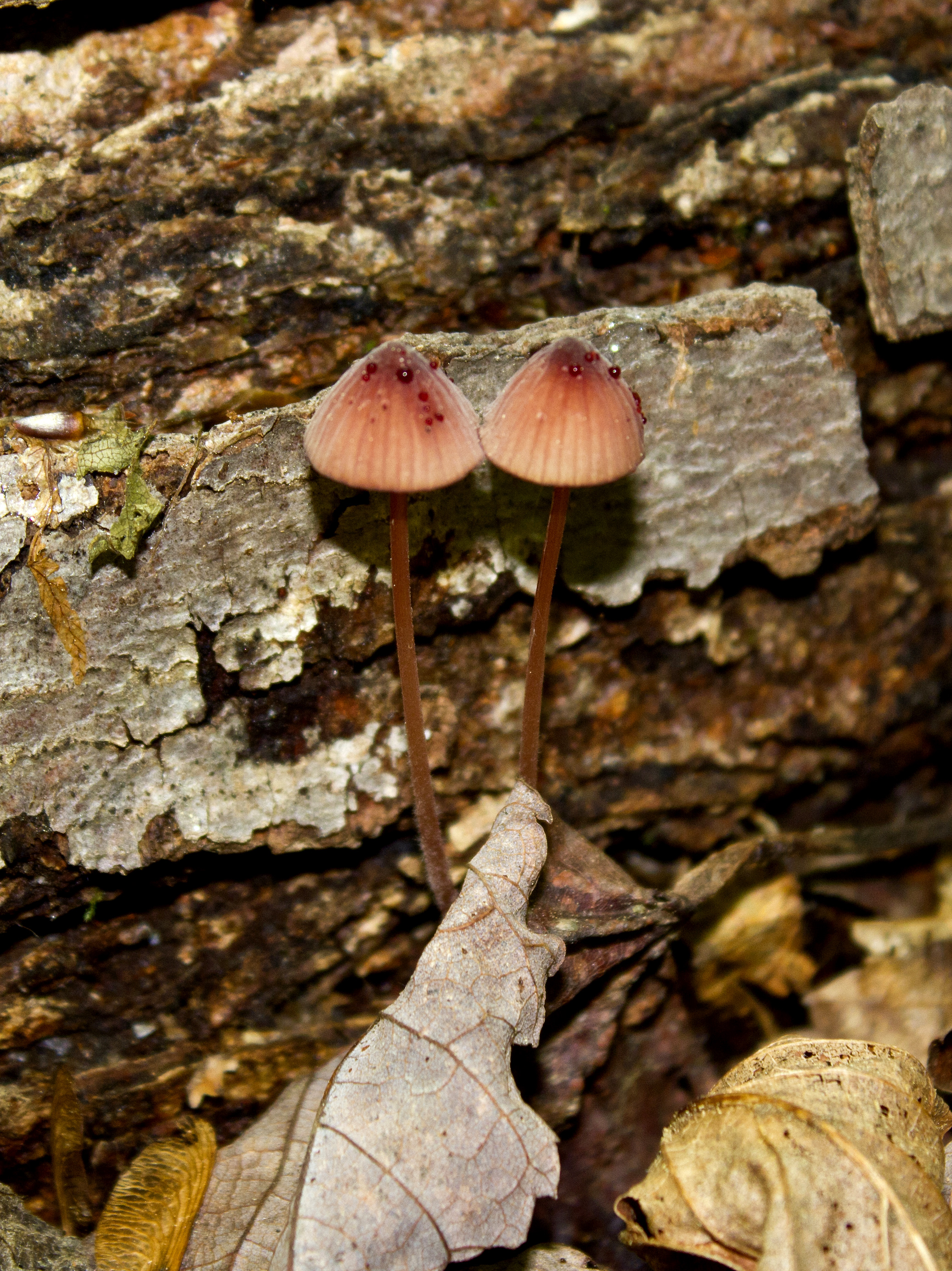 Mycena sanguinolenta (Alb. & Schwein.) P. Kumm. Image location: Oxford Co., Maine, USA on decaying hardwood bark or bark/leaf mold Recognized by sight For more information about this, see the observation page at Mushroom Observer.